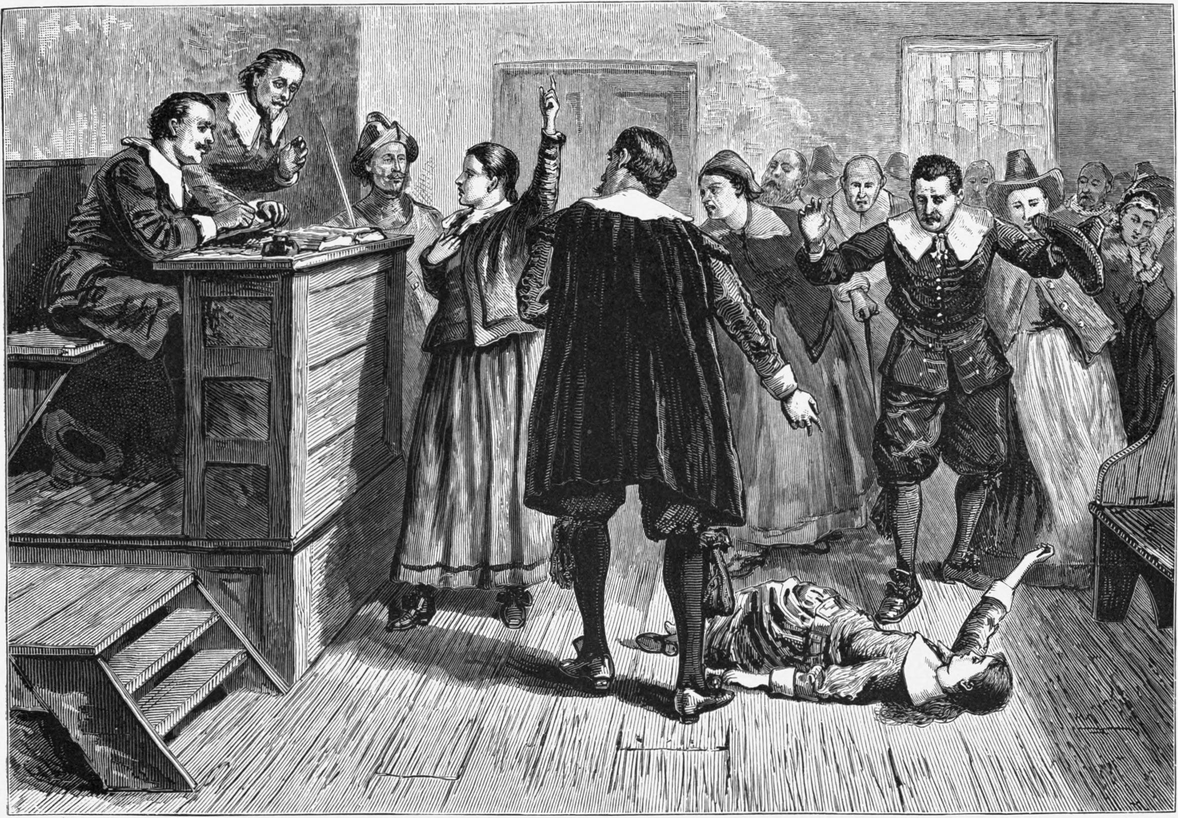 Witchcraft at Salem Village. Engraving. The central figure in this 1876 illustration of the courtroom is usually identified as Mary Walcott.